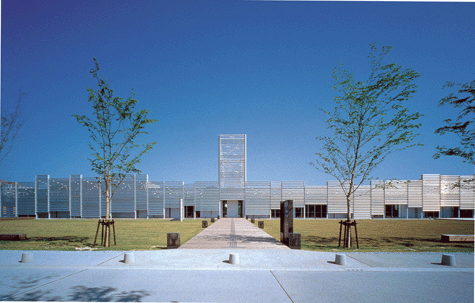 Uki Shiranuhi Library and Art Museum